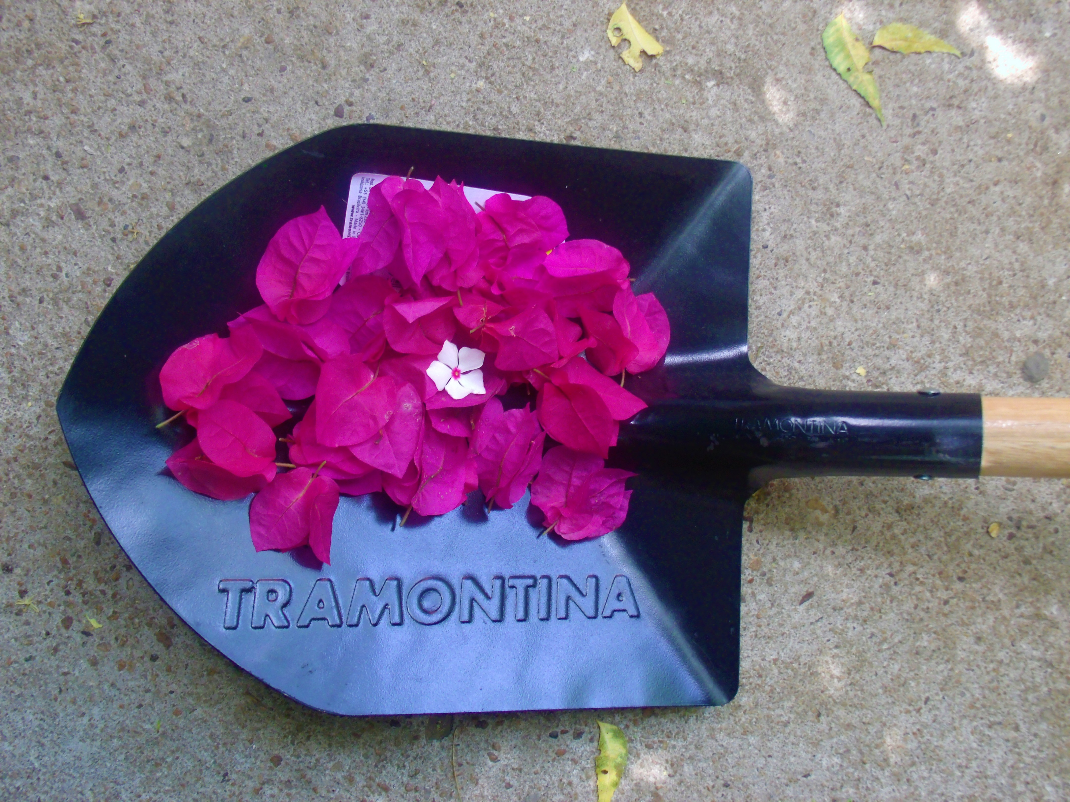 Bougainvillea.